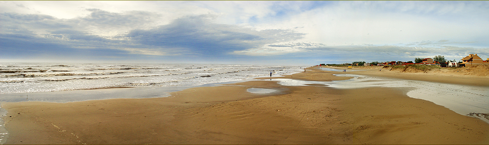 Beach of Noiva do Mar, in the city of Xangri-lá, Rio Grande Do Sul, Brazil.